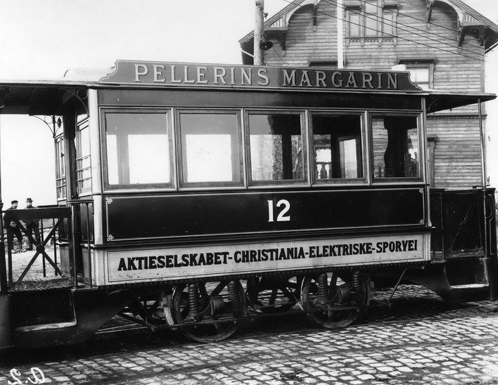 Kristiania Elektriske Sporvei Class A tram no. 12Norsk bokmål: Blåtrikk tilhenger (fra 1894) type Kühlstein nr. 12 som levert foran vognhall 1. Administrasjonsbygningen til KES bak. Reklame for Pellerins margarin.